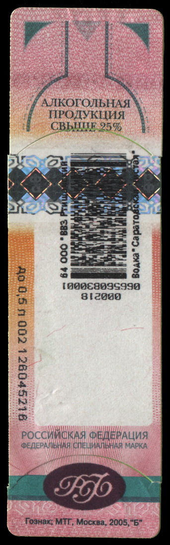 Russia. Excise stamp, 2005